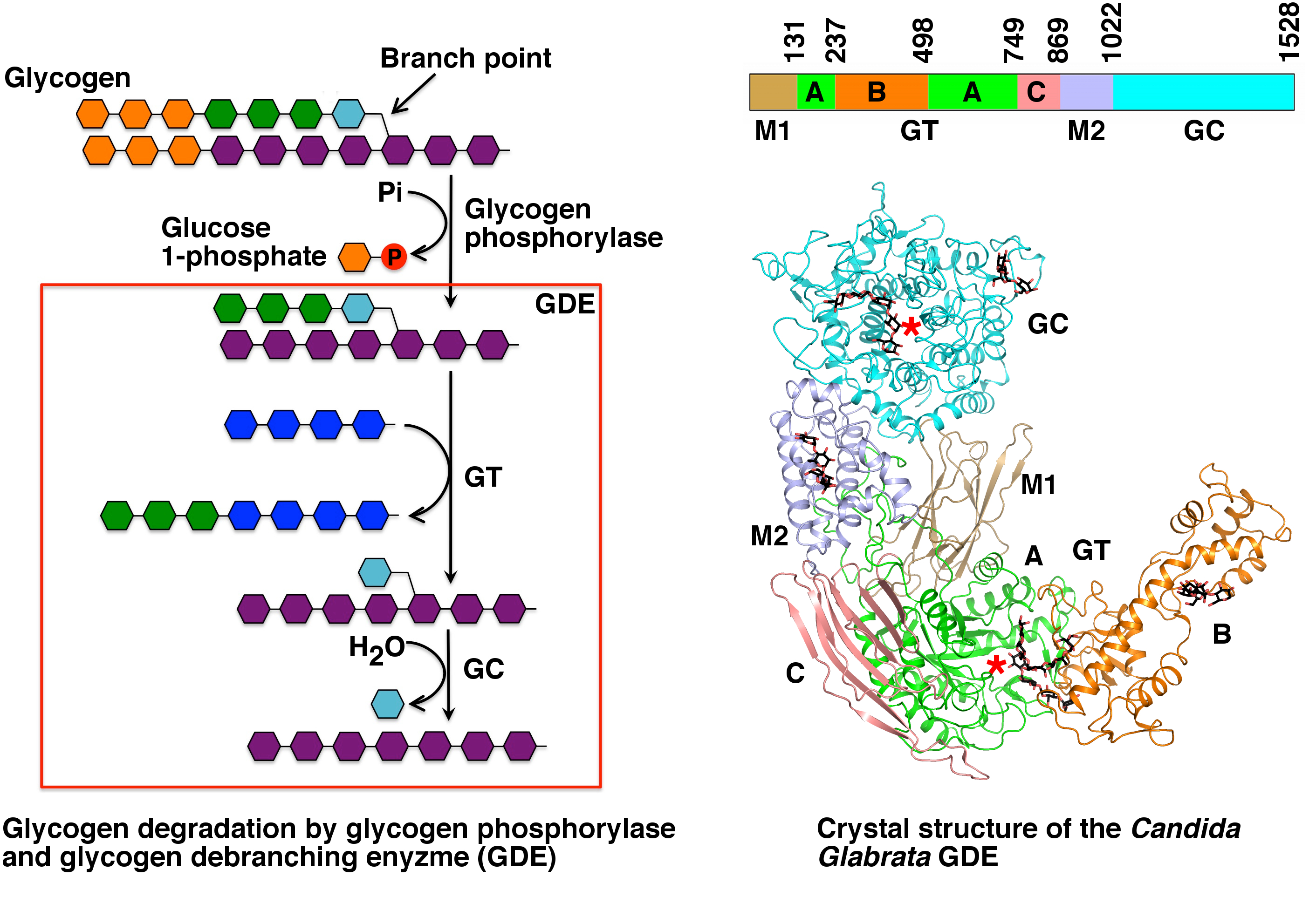 Function and Structure of Eukaryotic Glycogen Debranching Enzyme